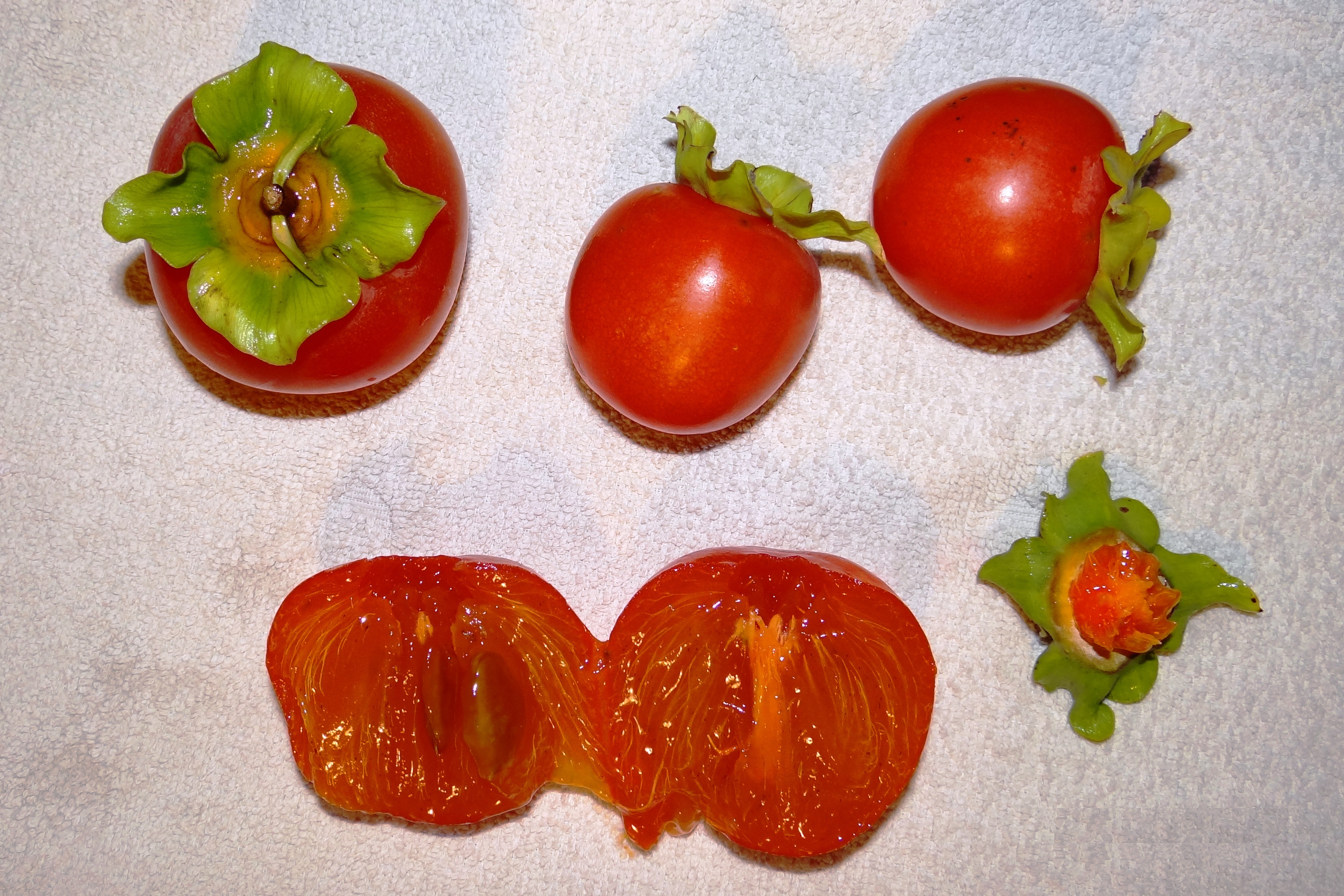 The fruit of Kaki. Plaquemine (Fr). Kaki (En). Japanese persimmon, kaki persimmon. (Diospyros kaki Thunb., 1780)